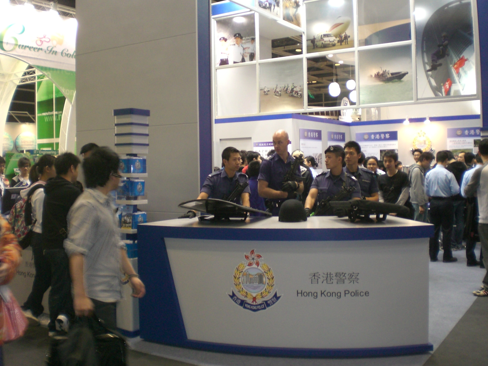 教育及職業博覽 2008年 Education & Careers Expo in HK Convention and Exhibition Centre, Wan Chai, Hong Kong.